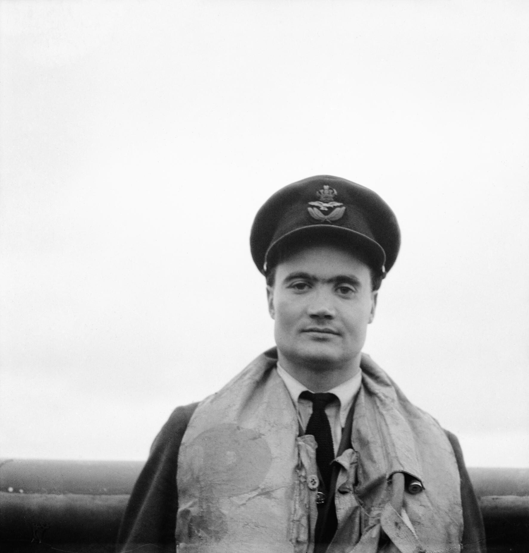 Wing Commander Charles Kingcome, CO of No. 92 Squadron RAF at Biggin Hill, Kent, 14 June 1942. Acting Wing Commander C B F Kingcome, Commanding Officer of No. 92 Squadron RAF, at Biggin Hill, Kent. He later commanded No. 72 Squadron RAF before becoming leader of the Kenley Wing in 1942. In 1943 he was posted to North Africa to take command of No. 244 Wing, at the end of which, he had brought victory score to 18 enemy aircraft.